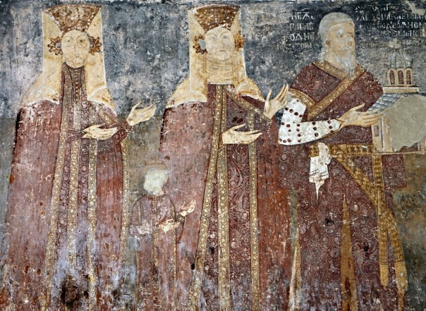 Petar Brajan with his wife and one of his daughters